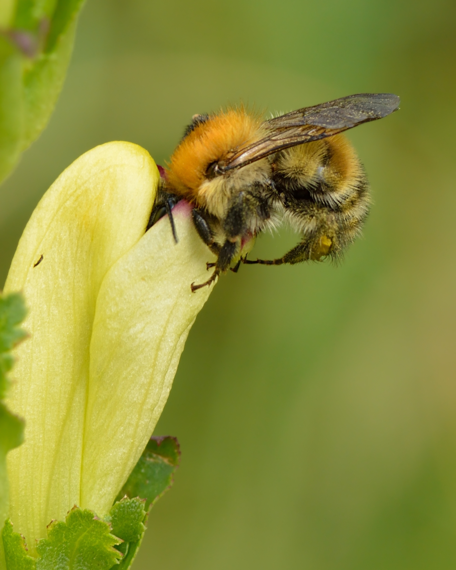 Schrenck’s bumblebee (Bombus schrencki) is pollinating the Moor-king Lousewort (Pedicularis sceptrum-carolinum). Only strong insects (mostly bumblebees) can open moor-king flowers. Niitvälja Bog, Northwestern Estonia.